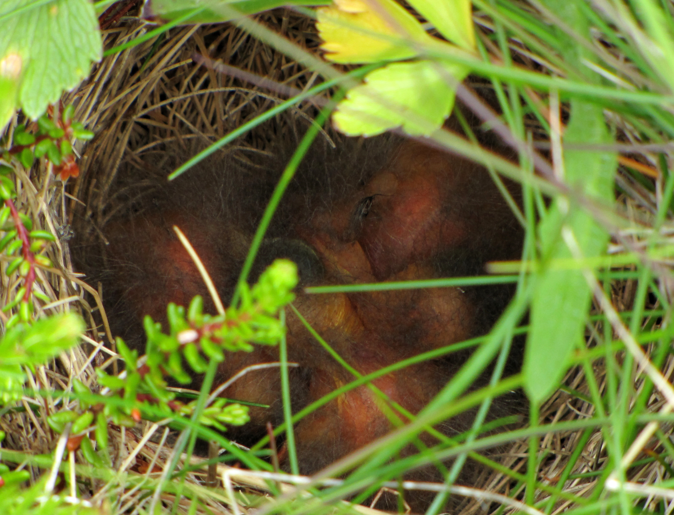 Savannah Sparrows (Passerculus sandwichensis labradorius), three chicks in nest in the ground, Cape Bonavista, Newfoundland and Labrador